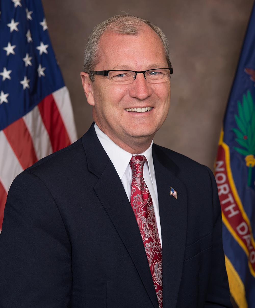 Official portrait of Congressman Kevin Cramer (R-ND).